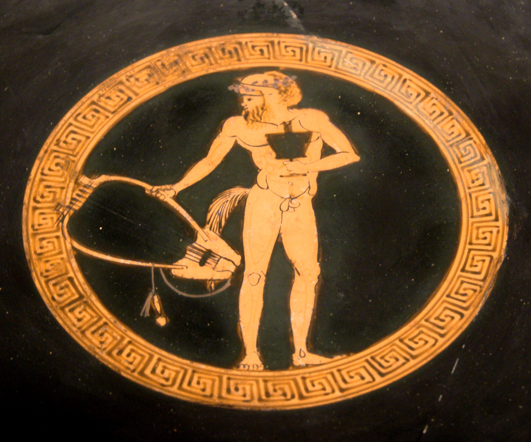 Silenus with a kantharos and a lyre. Tondo of an Attic red-figure kylix, 460-450 BC. From Vulci.